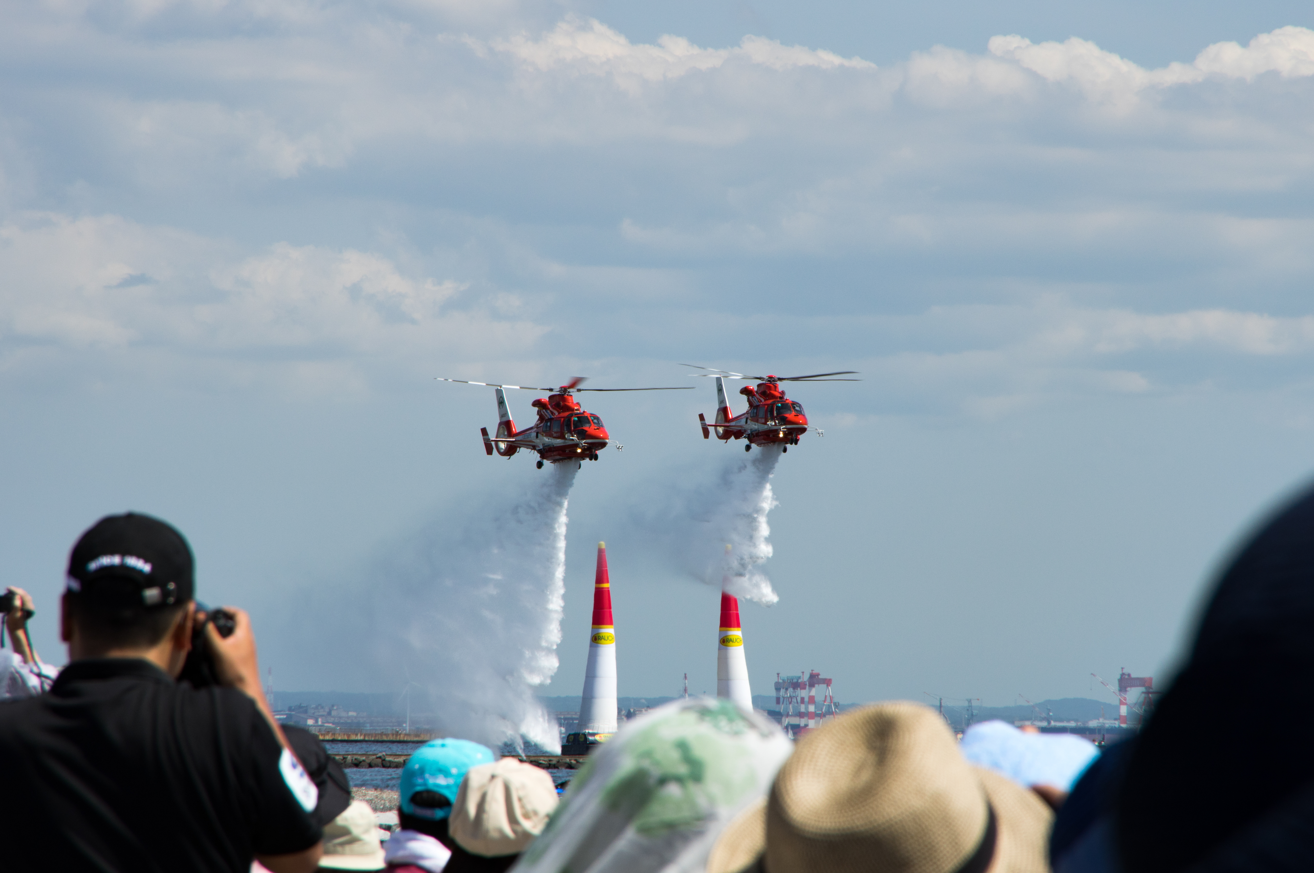 RED BULL AIR RACE CHIBA 2017-63.jpg